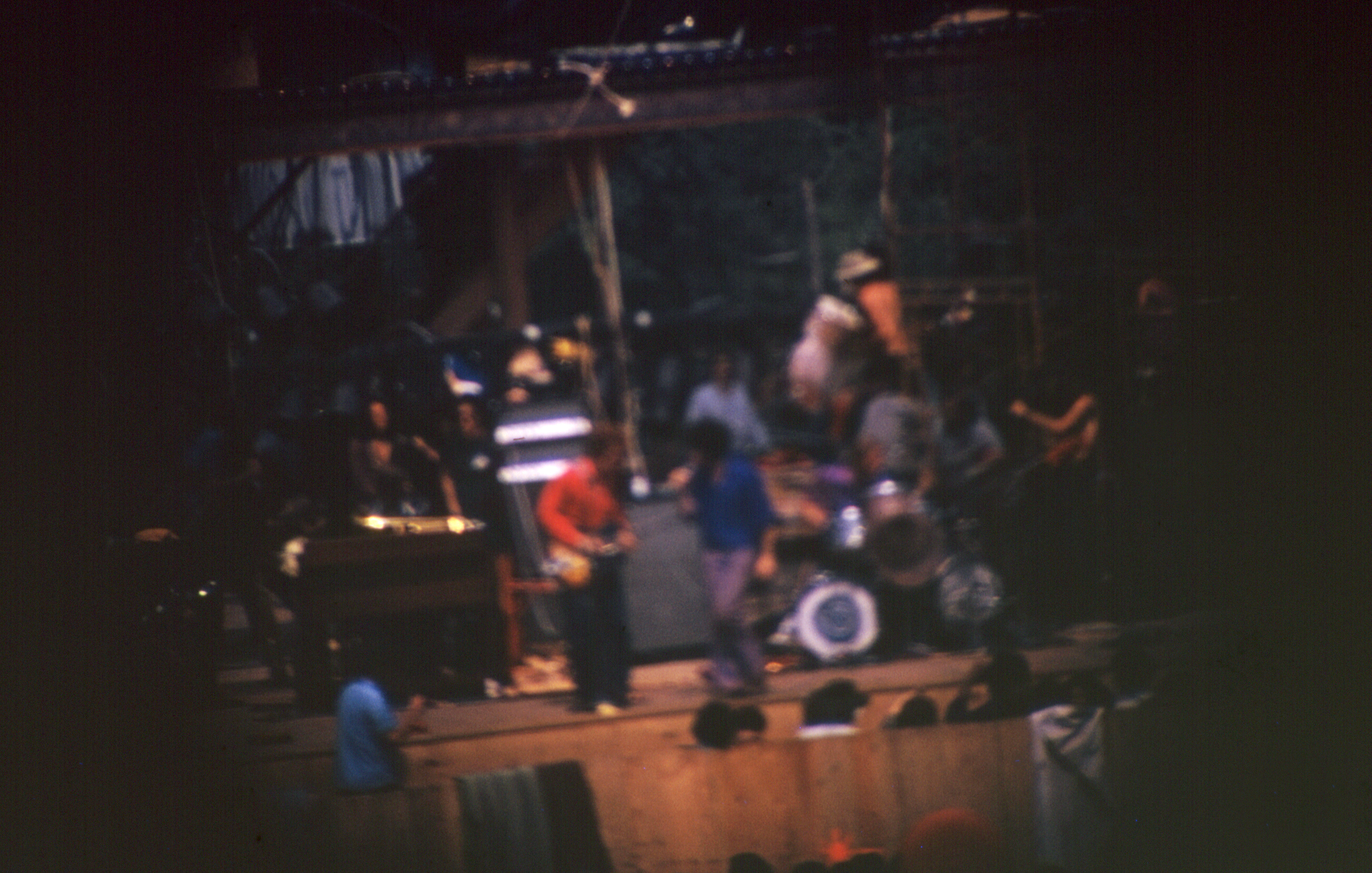 Quill was the opening act for day two which was mainly a day of rock music. I shot this through my binoculars thus the fuzziness.